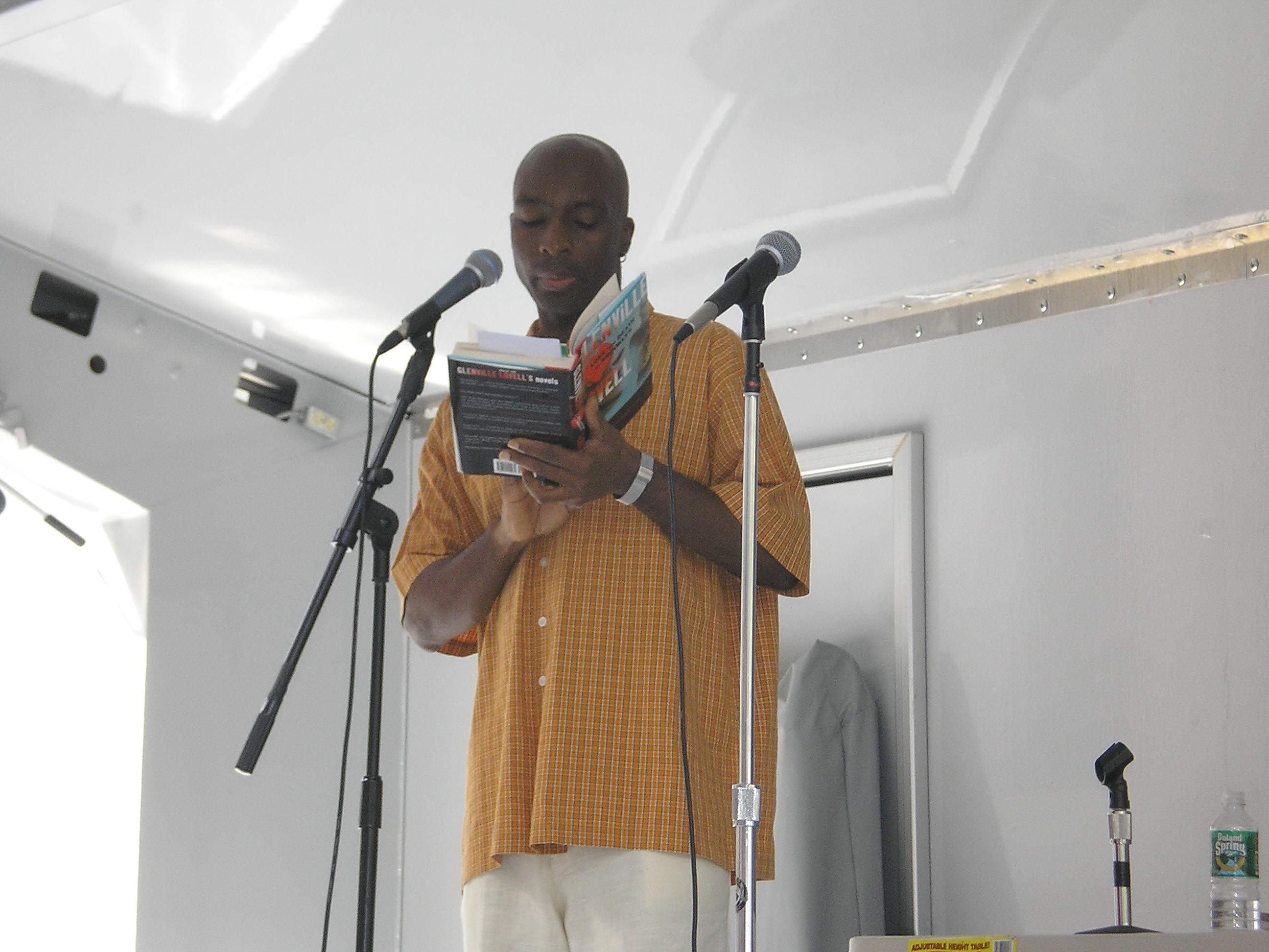 Glenville Lovell by David Shankbone, New York City